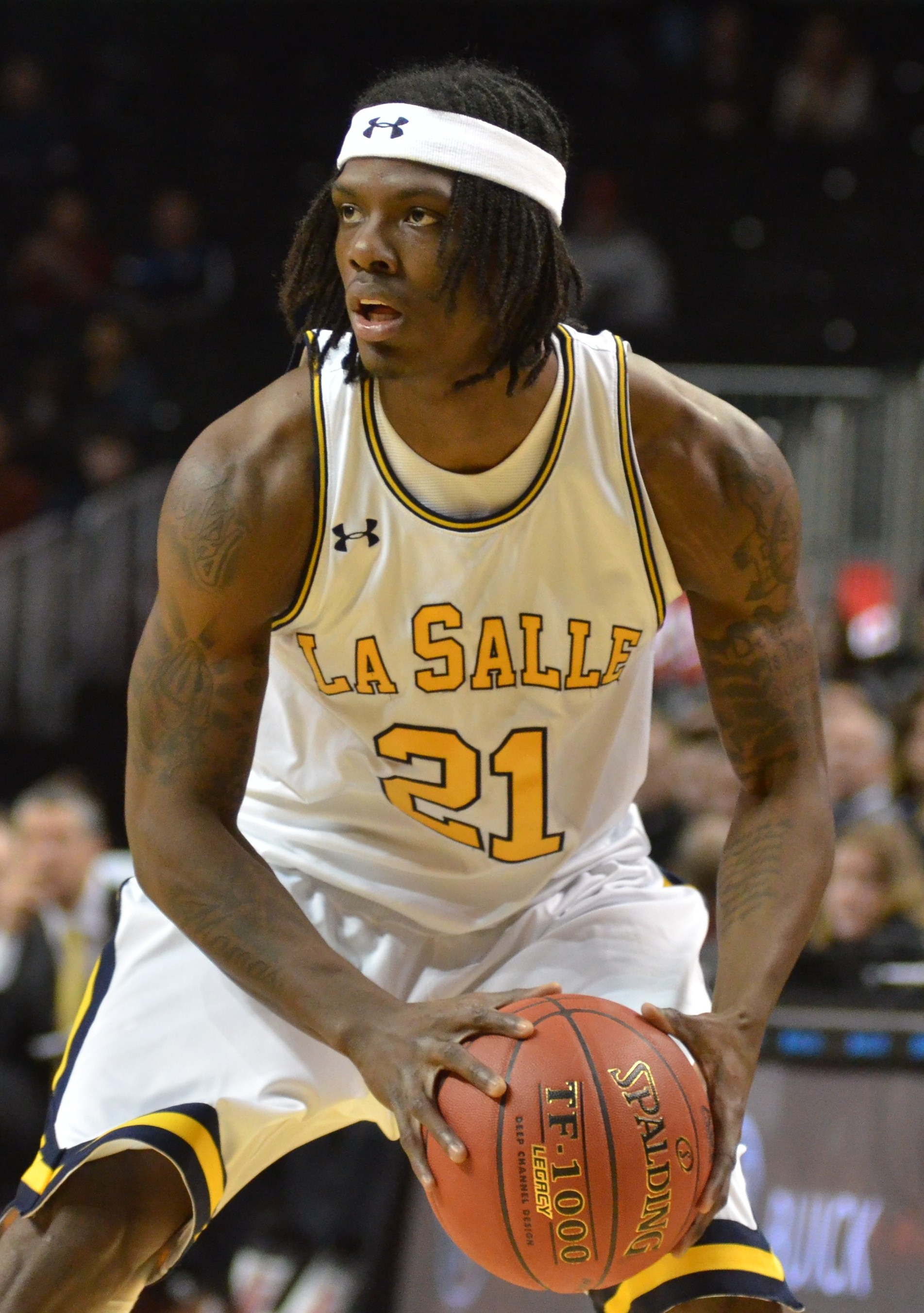 2013 A10 Tournament - LaSalle vs Butler